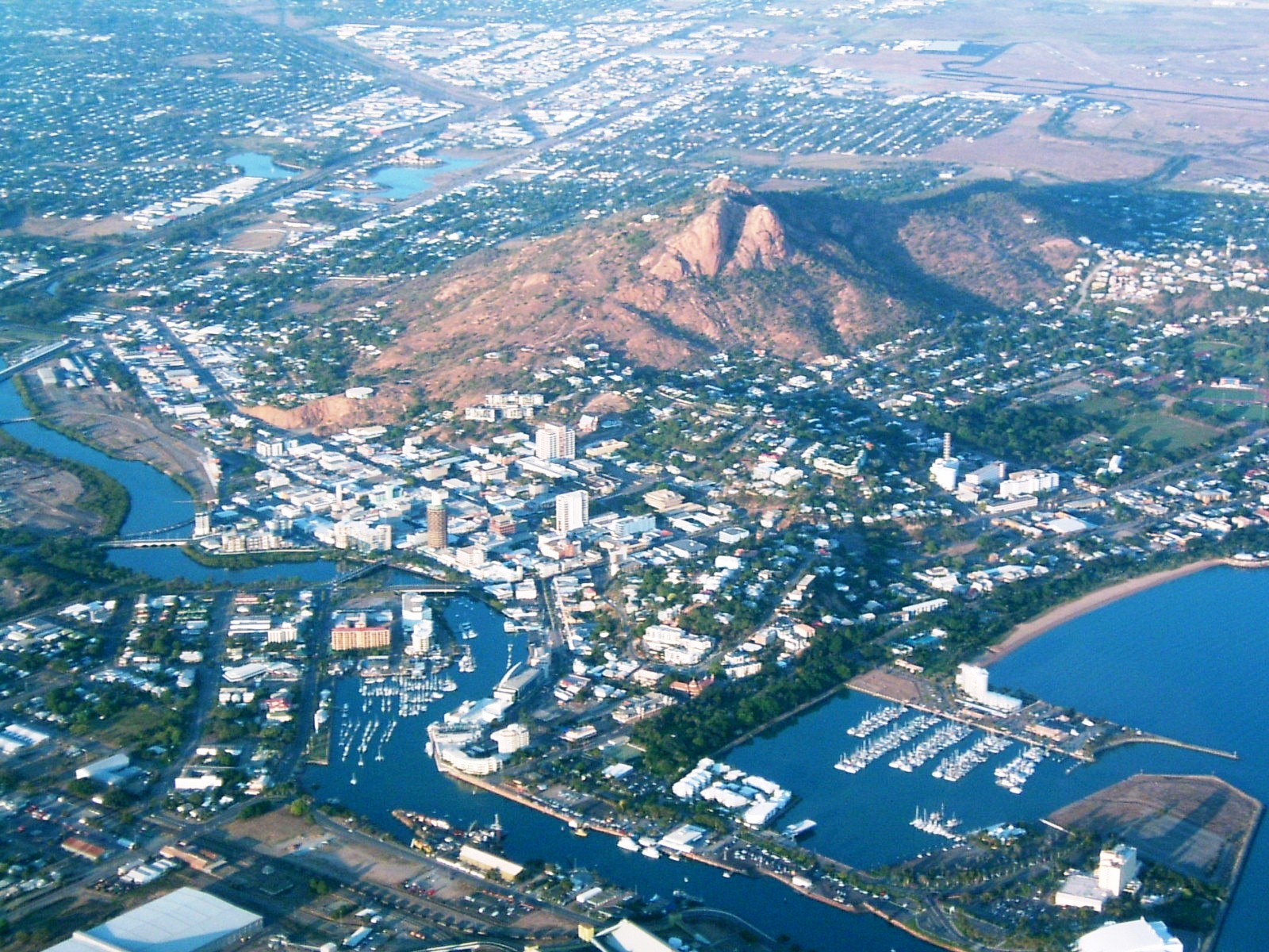 Picture taken by David Zuniga on the 16th of December 2005.